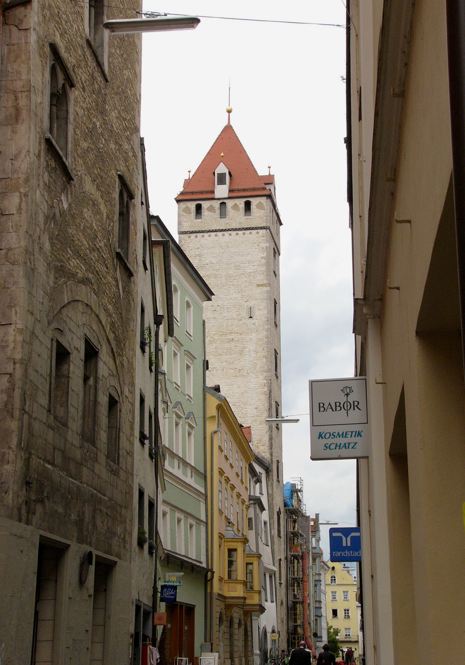 Wahlenstraße in Regensburg, Bavaria, Germany.